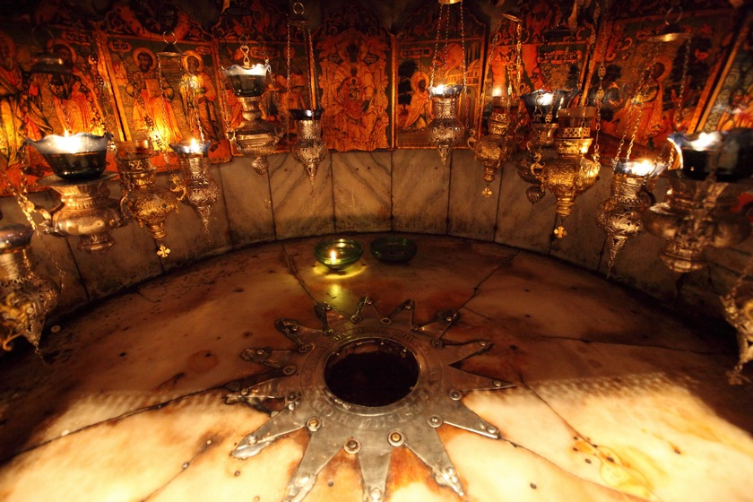 The Birth Place of Jesus, Bethlehem.